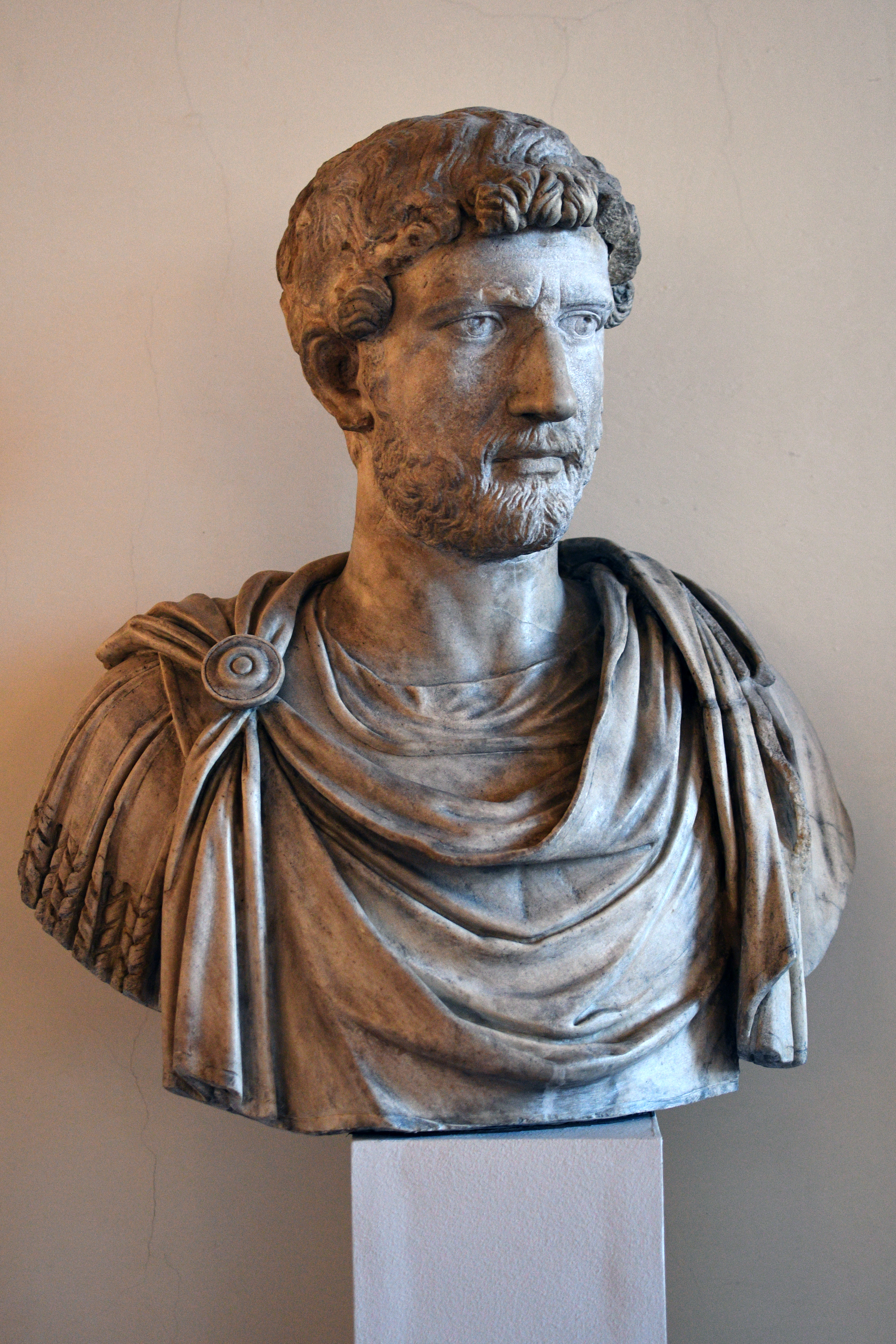 Busts of Hadrianus in Venice